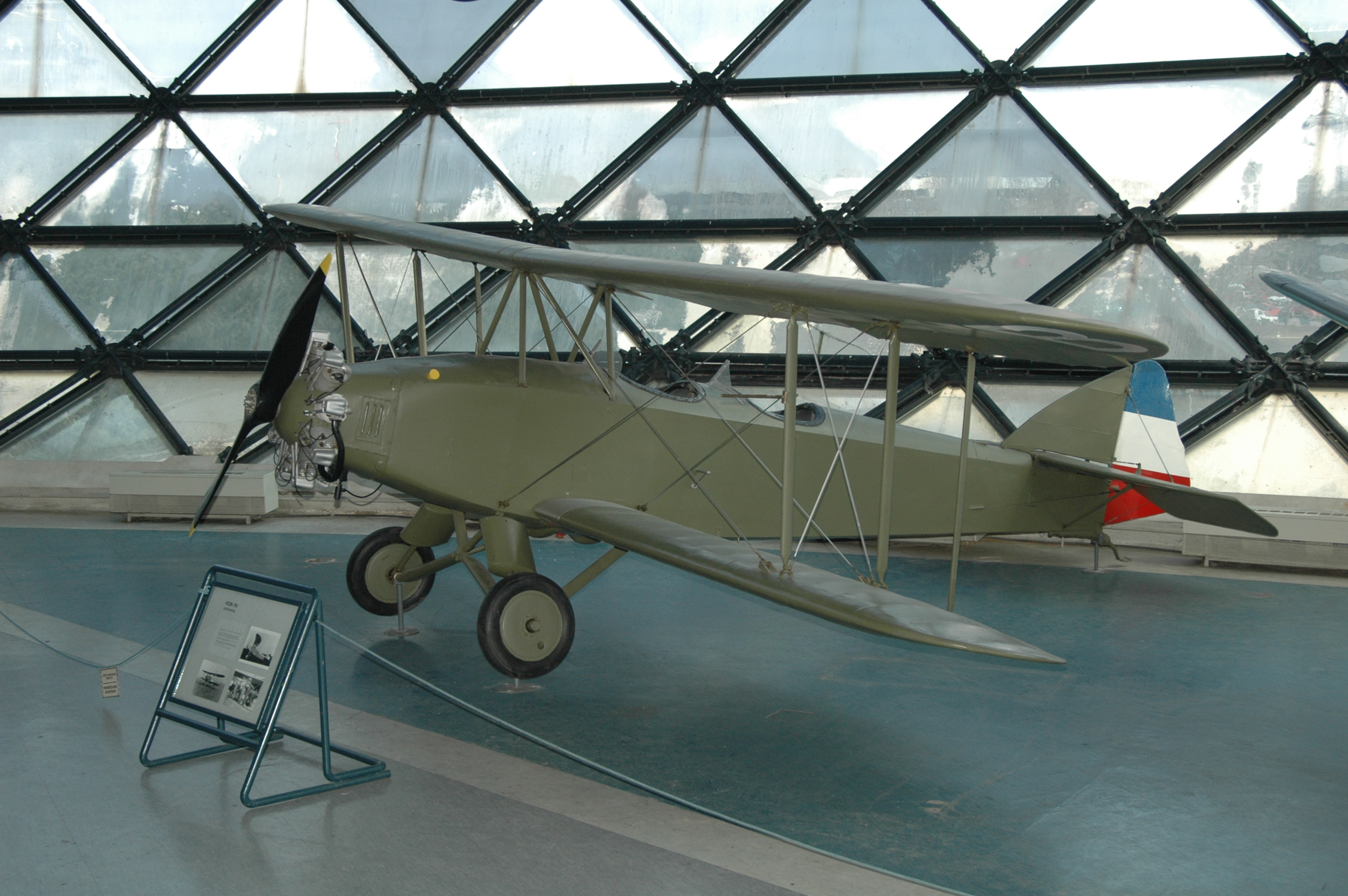 Fizir FN